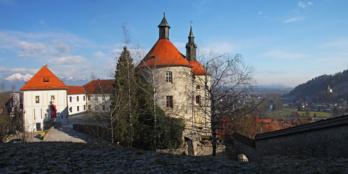 Škofja Loka castle